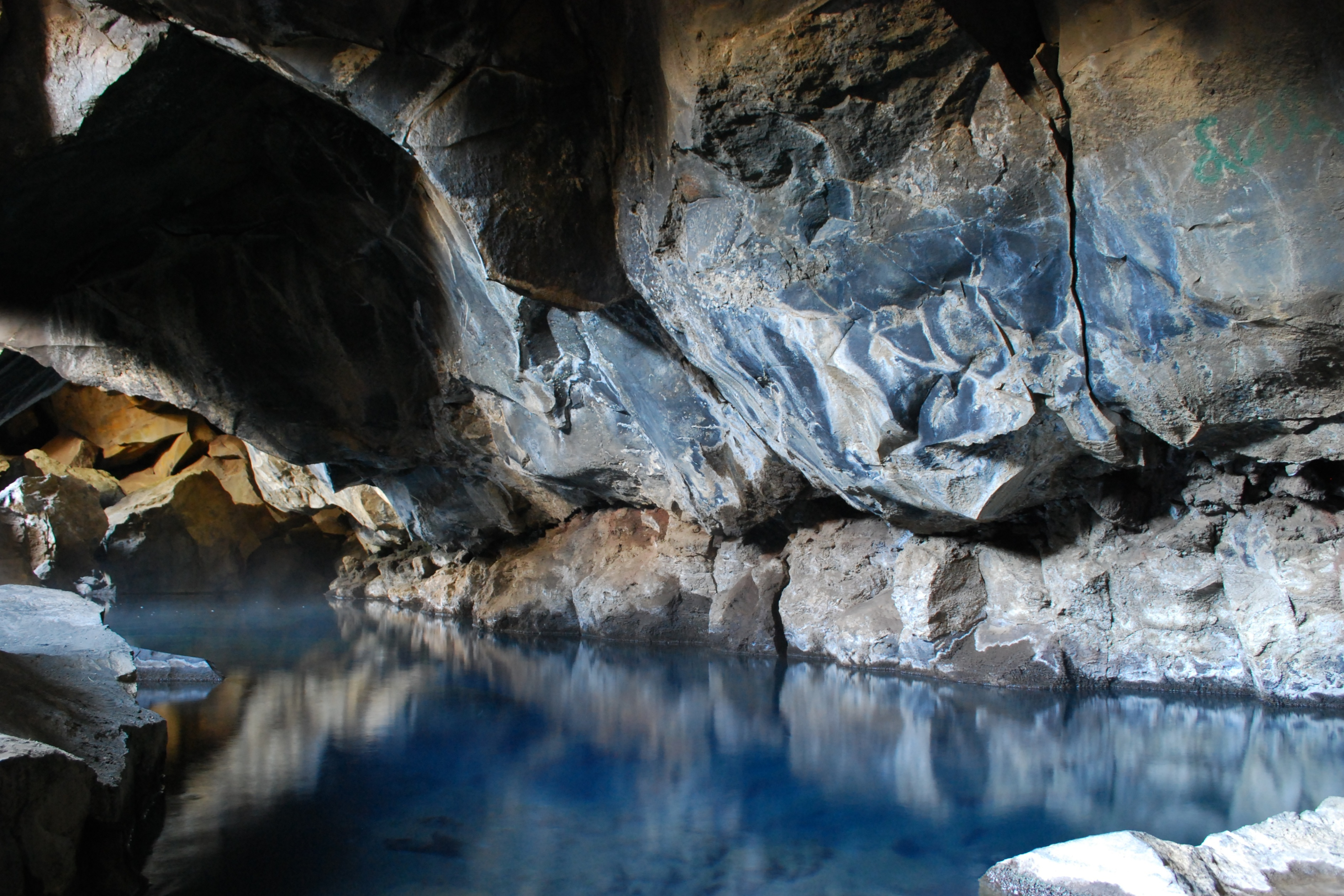 Grjótagjá caves near Mývatn lake, Iceland.